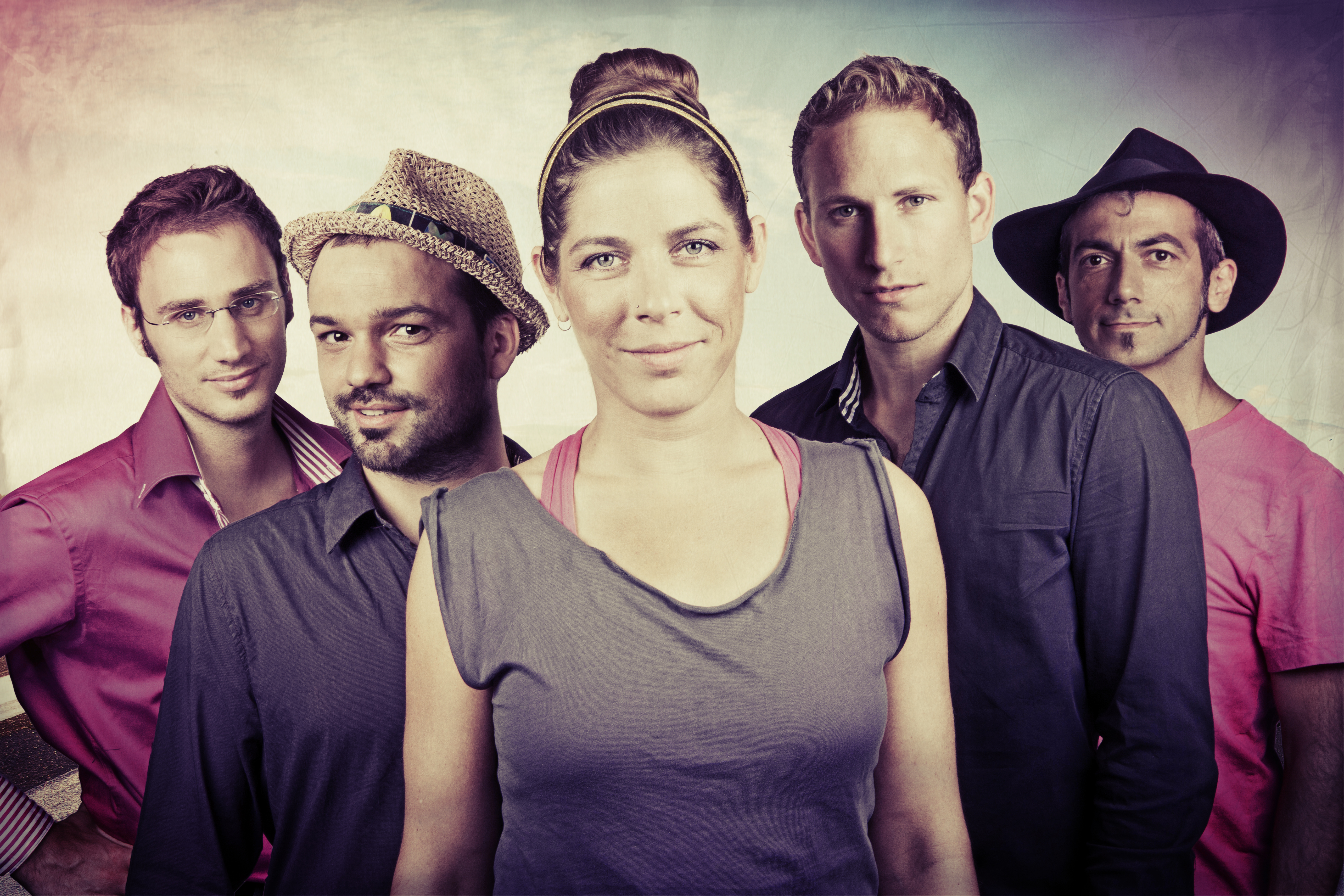 Äl Jawala 2011